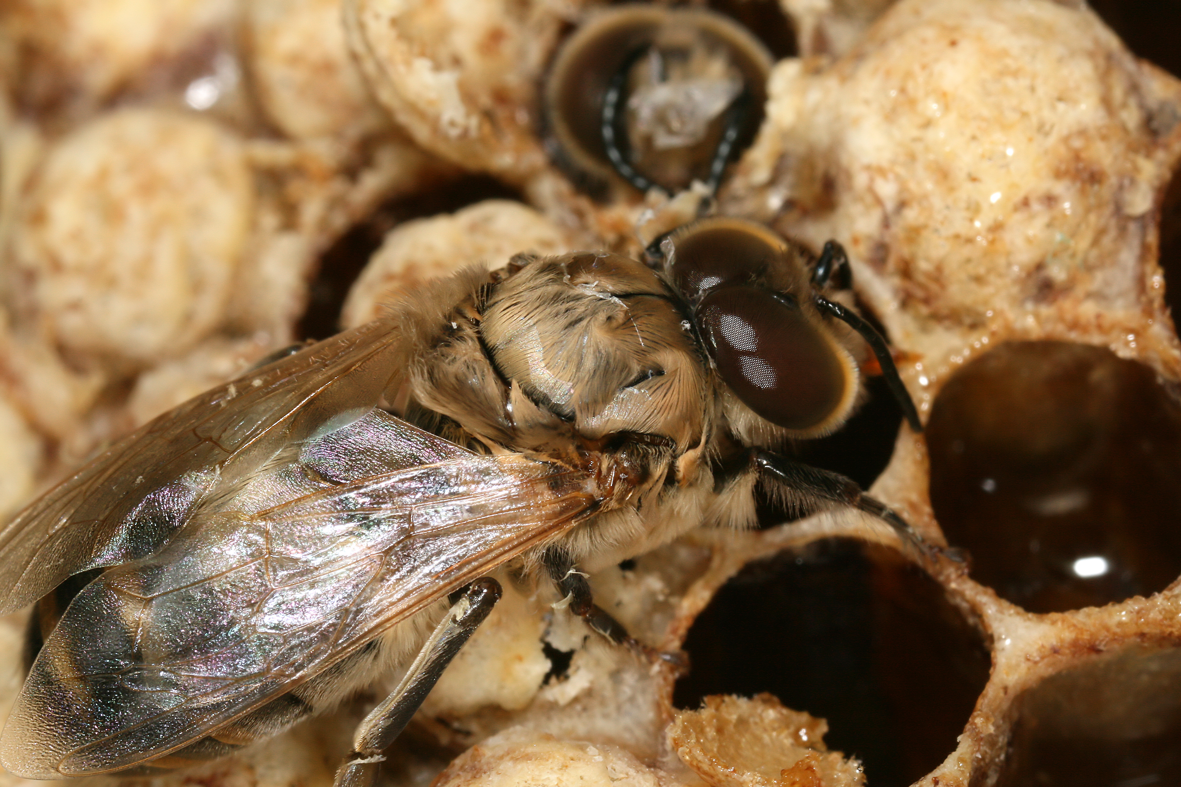 Description: The Carniolan honey bee (Apis mellifera carnica) is a subspecies of Western honey bee. It originates from Slovenia, but can now be found also in Austria, part of Hungary, Romania, Croatia, Bosnia and Herzegovina, and Serbia.